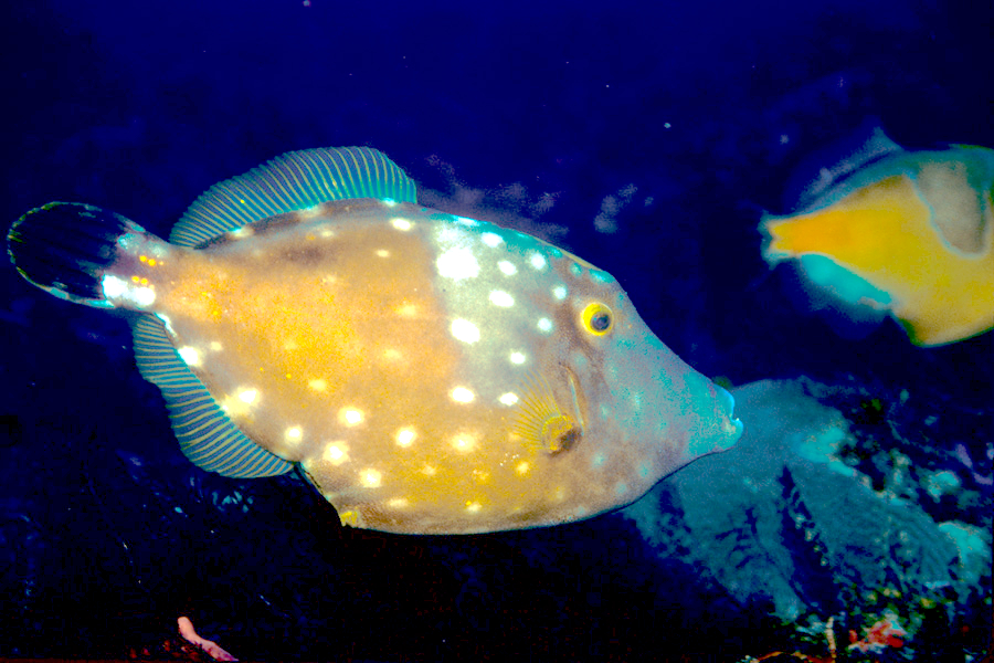 Whitespot Filefish on Tortugas Reef off the beautiful Mexican town of Playa del Carmen. This is actually Ol' Sponge Bob taken about 20 seconds before I photographed him hiding in the reef sponge. These guys change their colors and spots rapidly. See the other filefish (distant right) not showing spots.